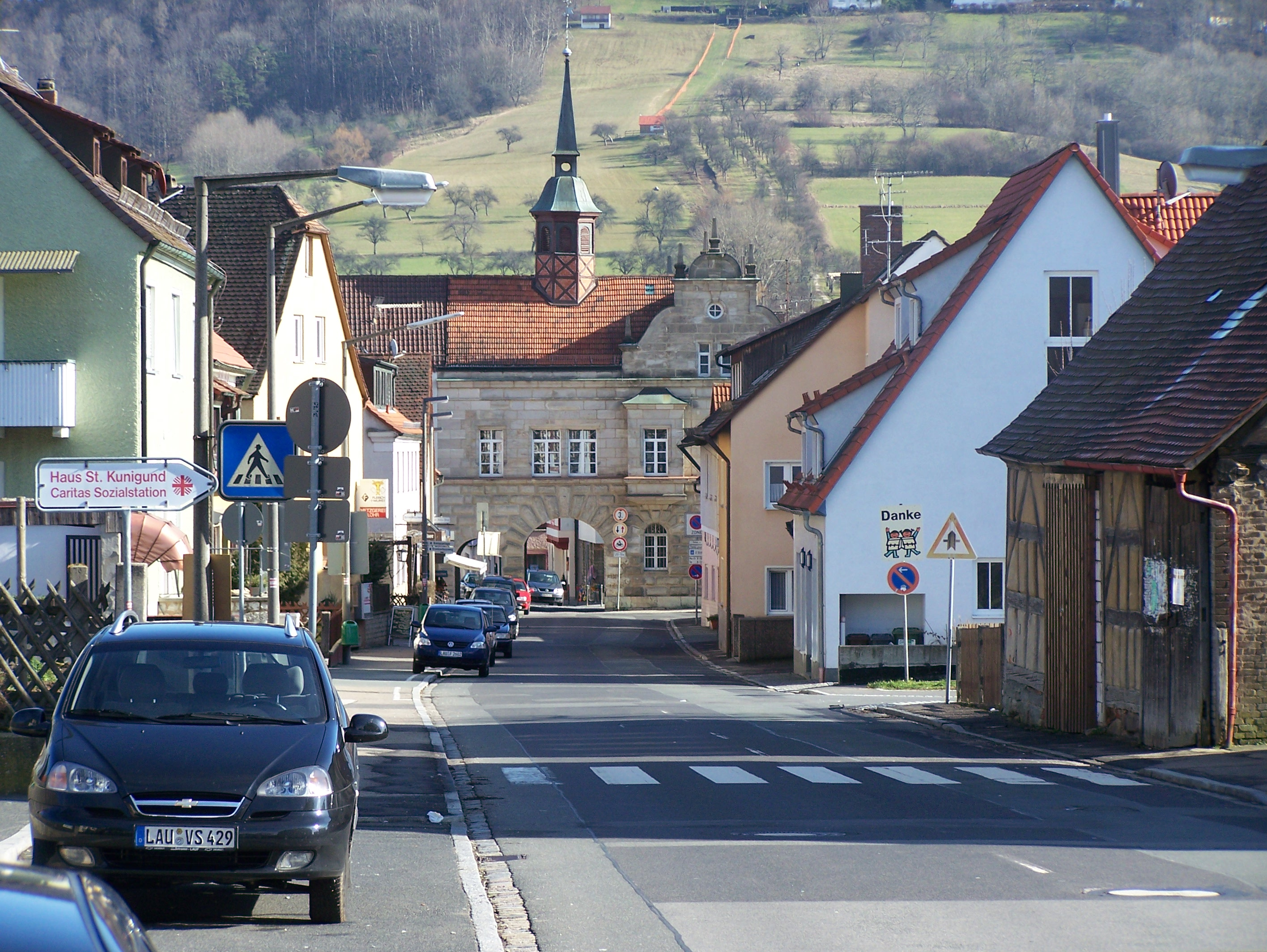 Erlanger Straße in Schnaittach, Germany.